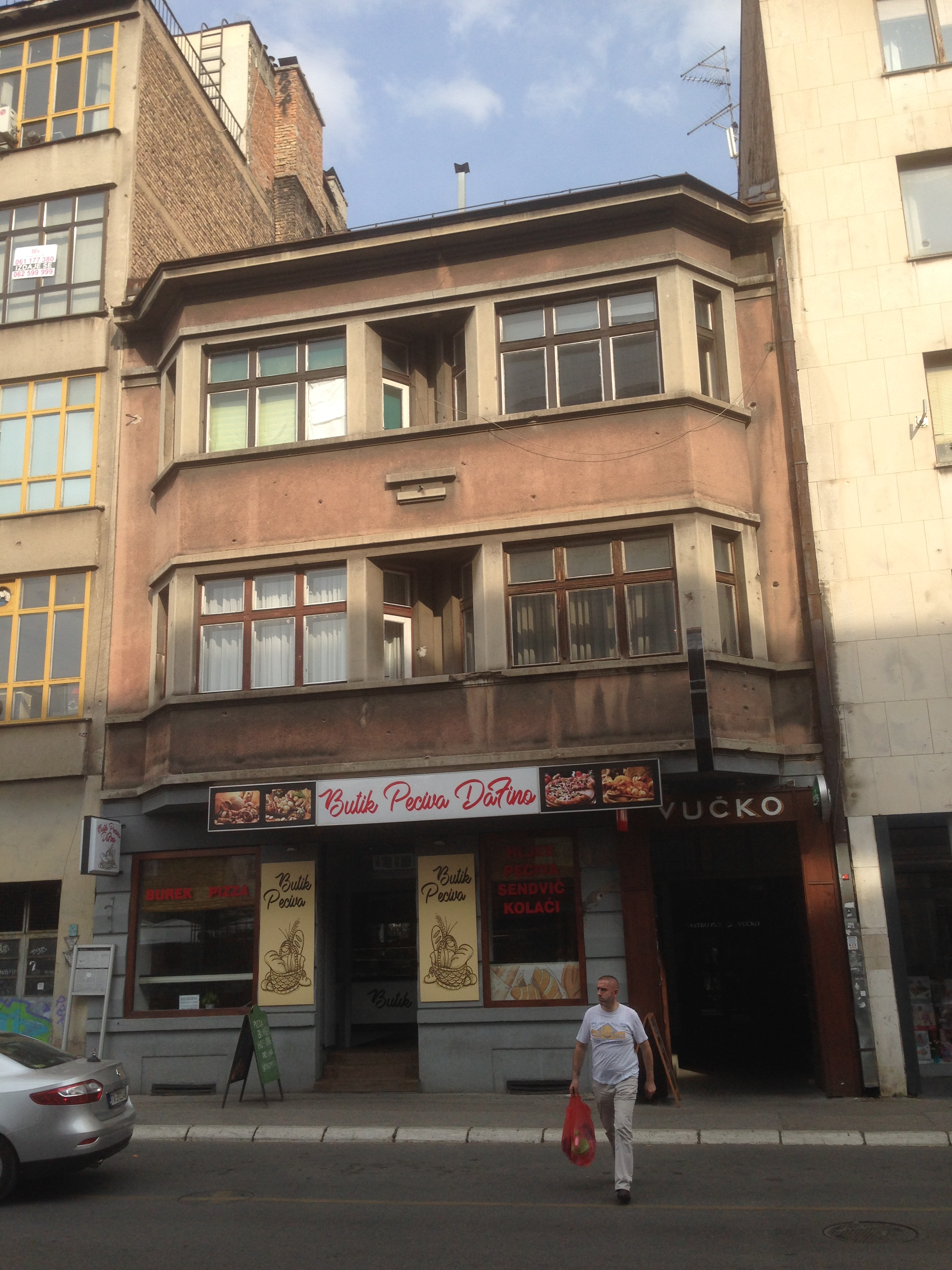 Sarajevo - St. Radić